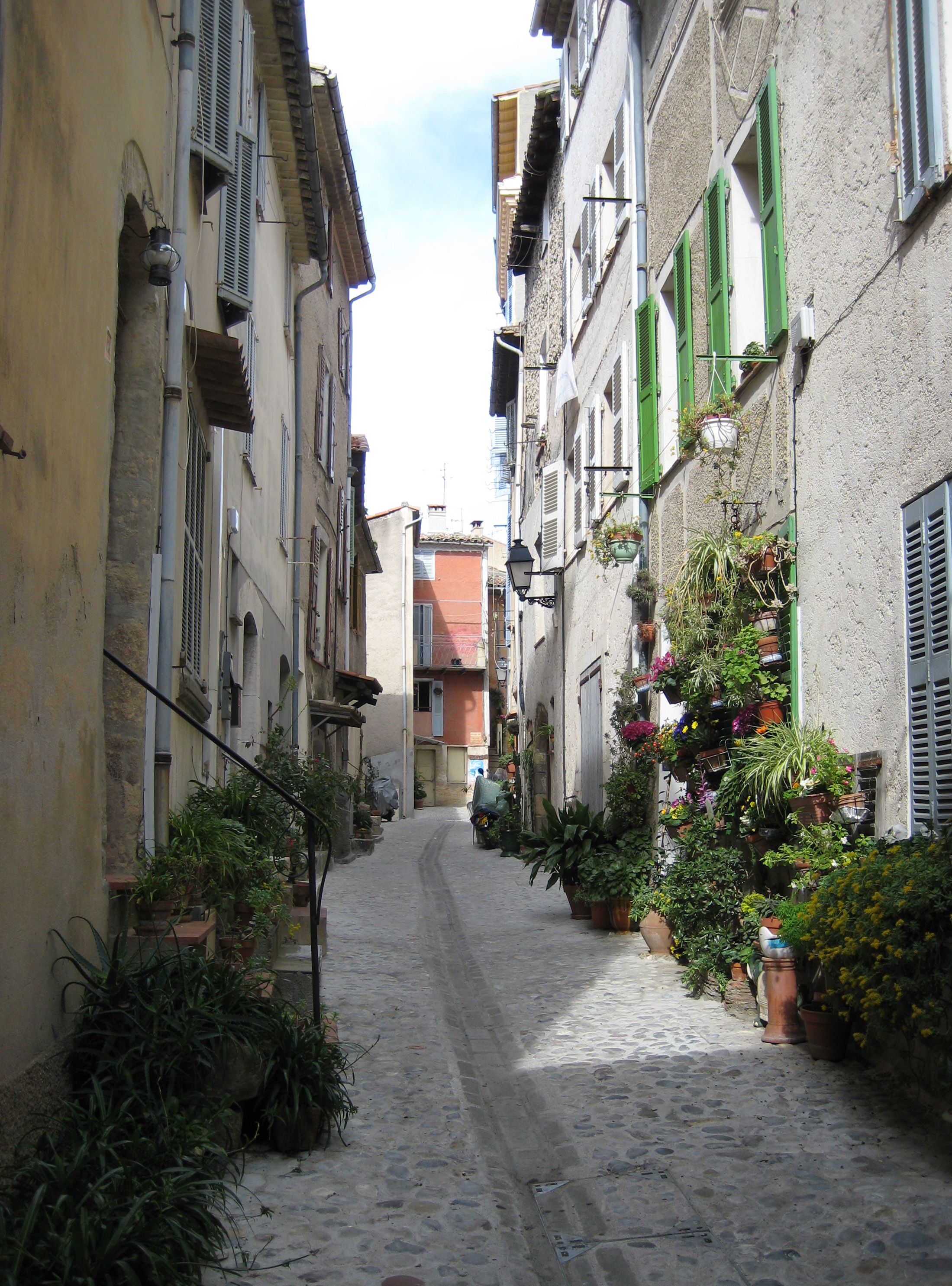 Biot Old Town